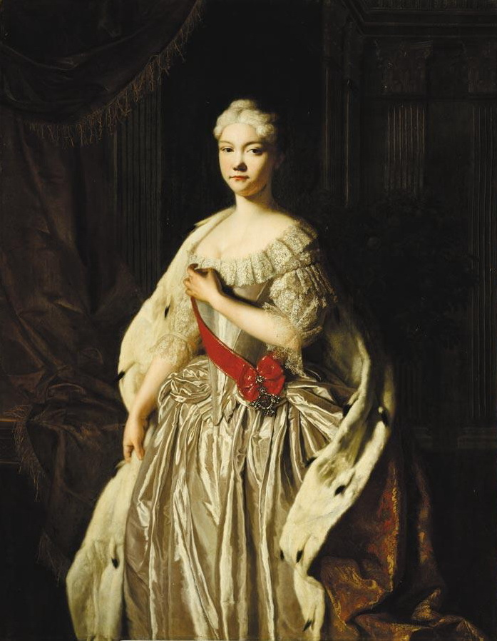 Portrait of a princess (Grand Duchess Natalie of Russia?)